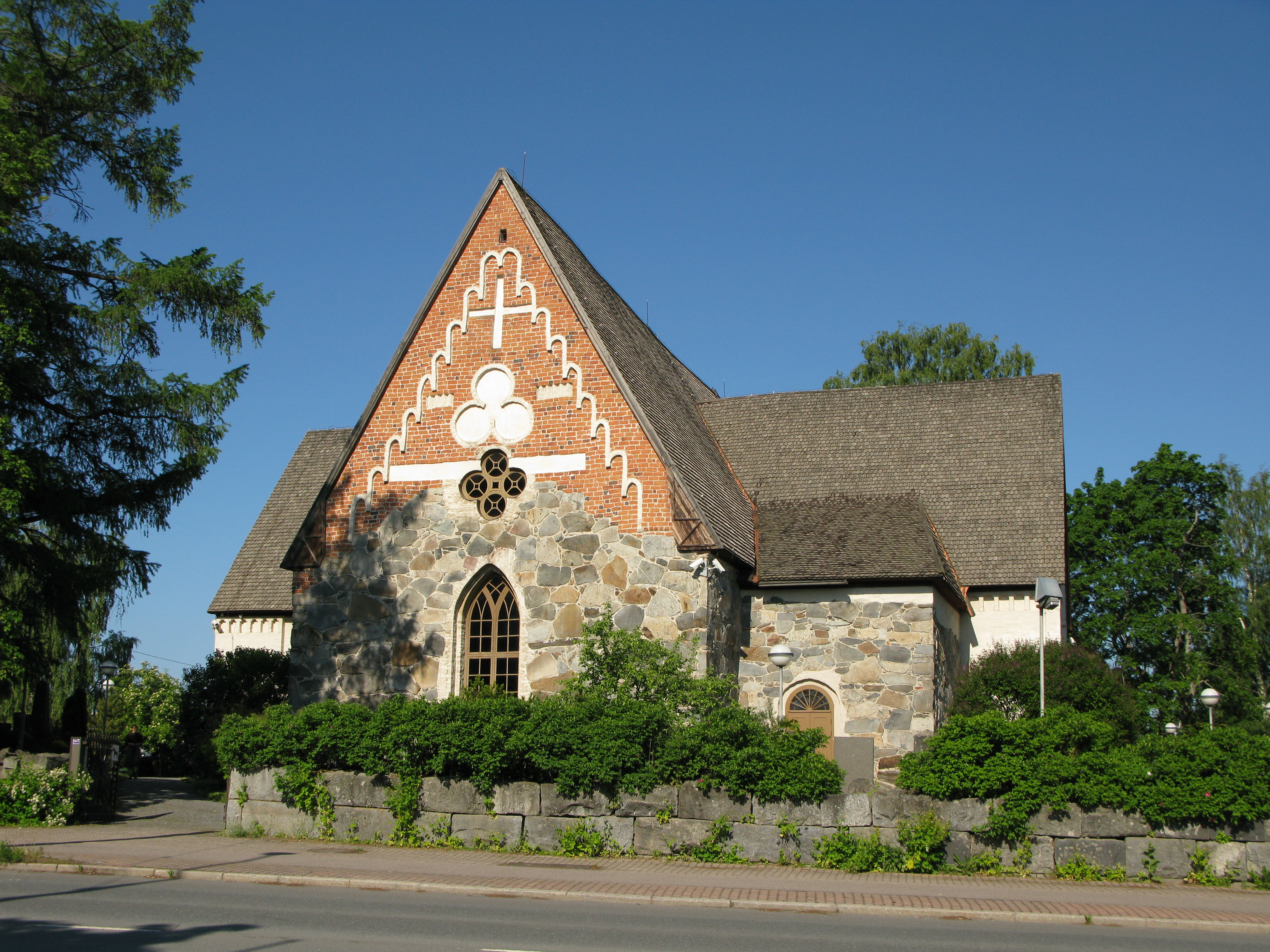 The St Birgit Memorial Church of Lempäälä.